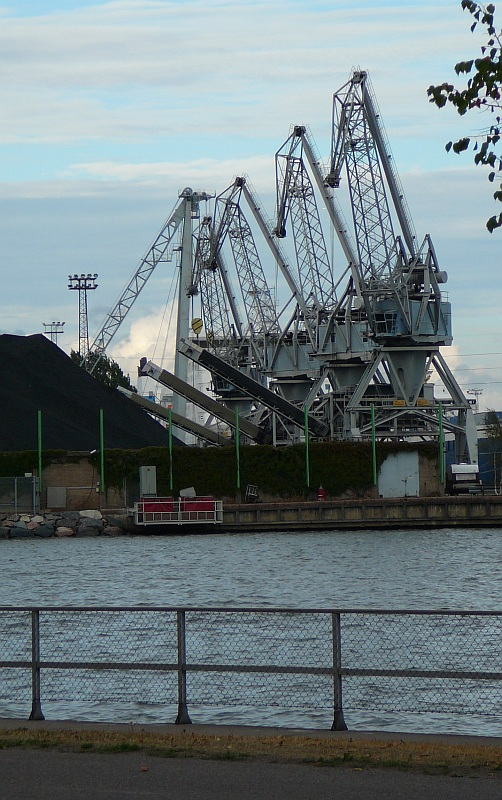 Hanasaari, one of the sea port of coal of Helsinki.